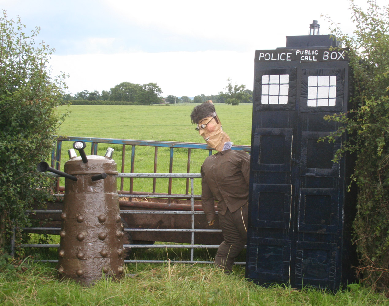 Entry in the Wrenbury Scarecrow Trail, 2007